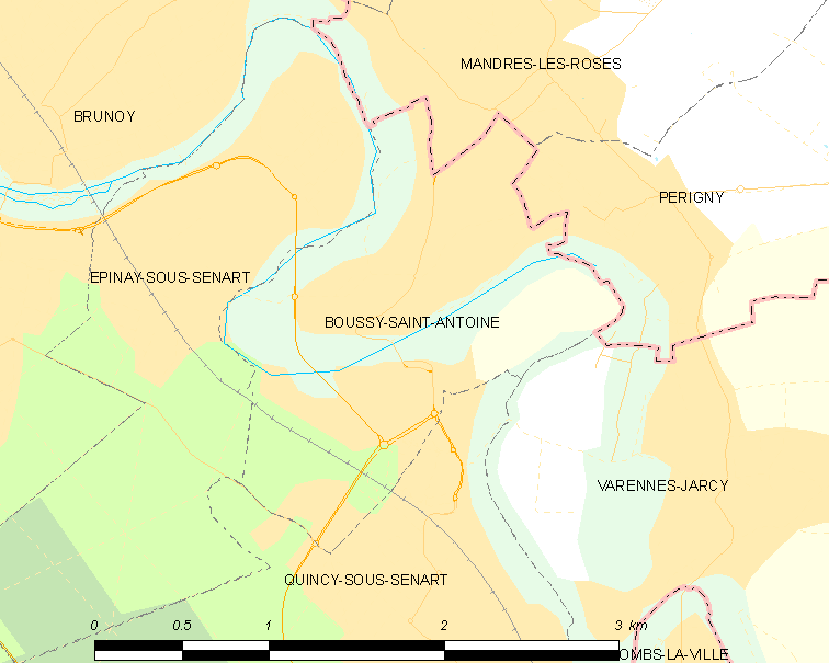 Map of French municipality Boussy-Saint-Antoine